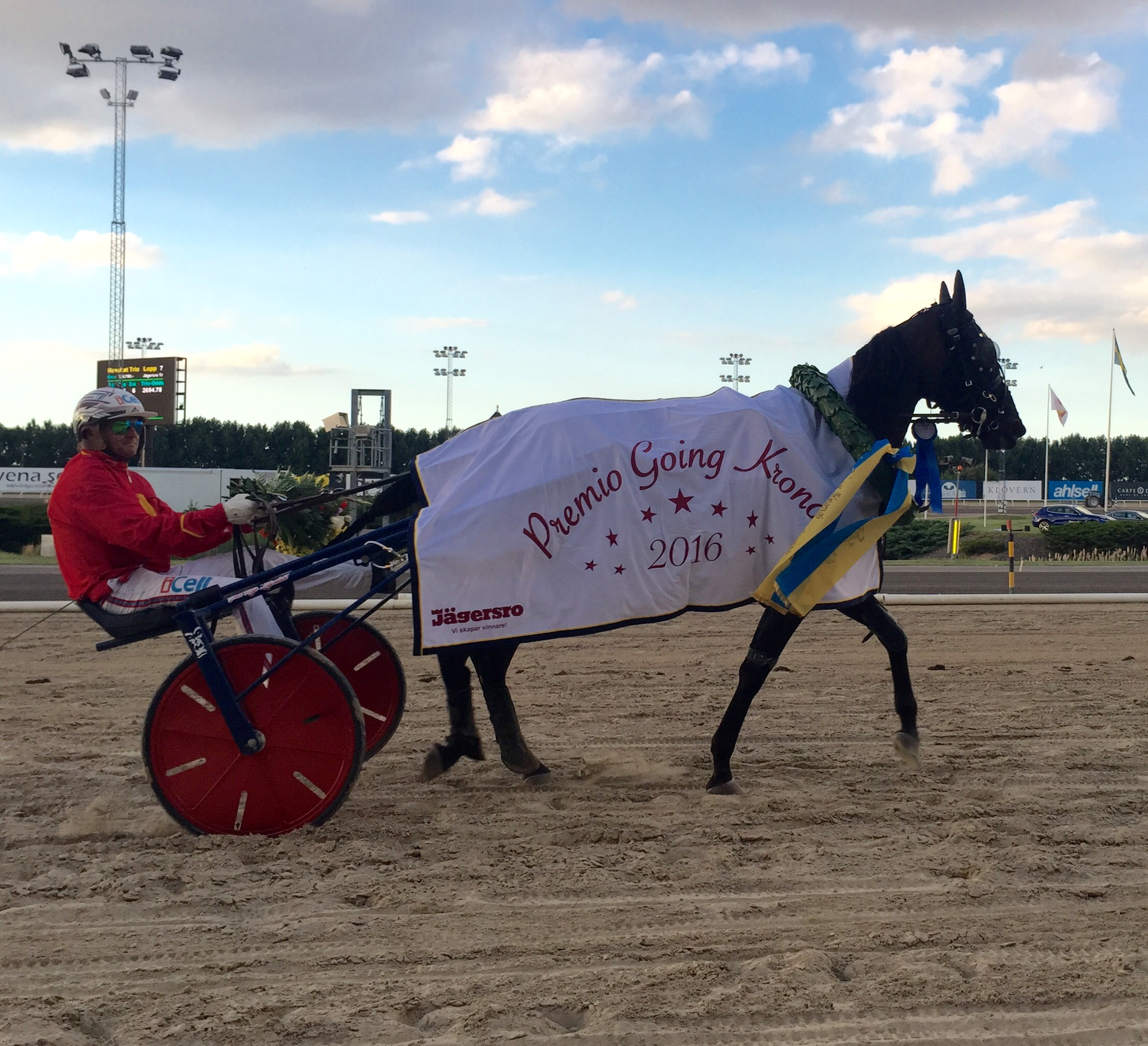 Driver Ulf Ohlsson and trotter Unica Gio after winning Premio Going Kronos in July 2016 at Jägersro in Malmö, Sweden.